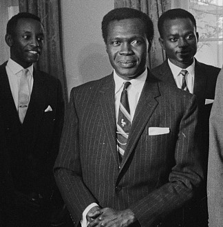 From left to right: Grace Ibingira, Milton Obote, and John Kakonge in the Oval Office of the White House, Washington D.C.